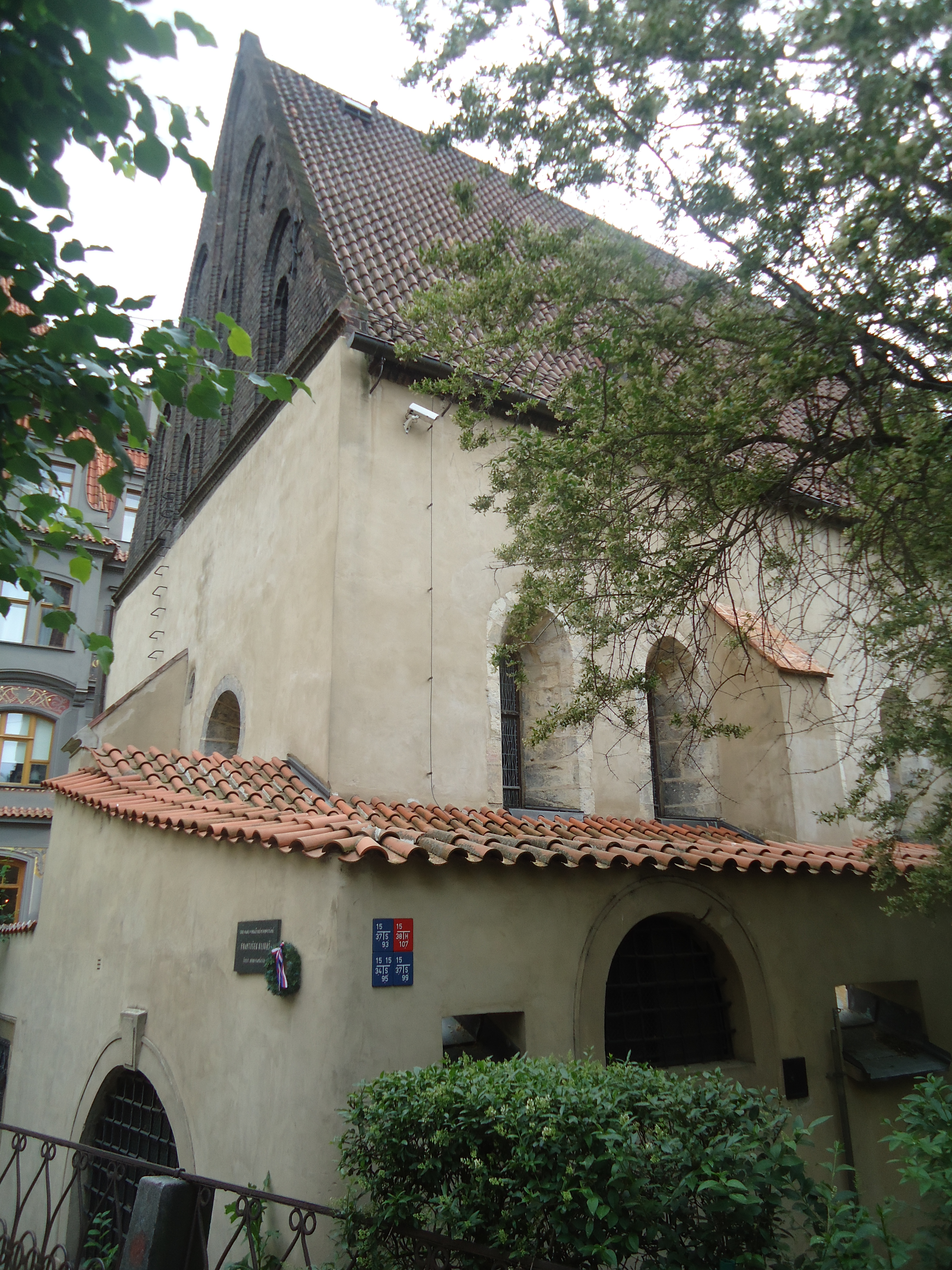 Staronová synagóga